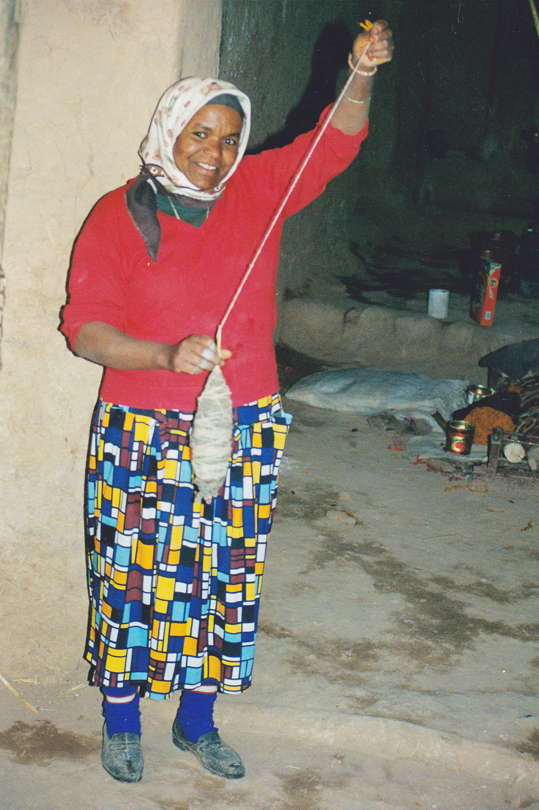 A spinning woman from Morocco with a drop spindle